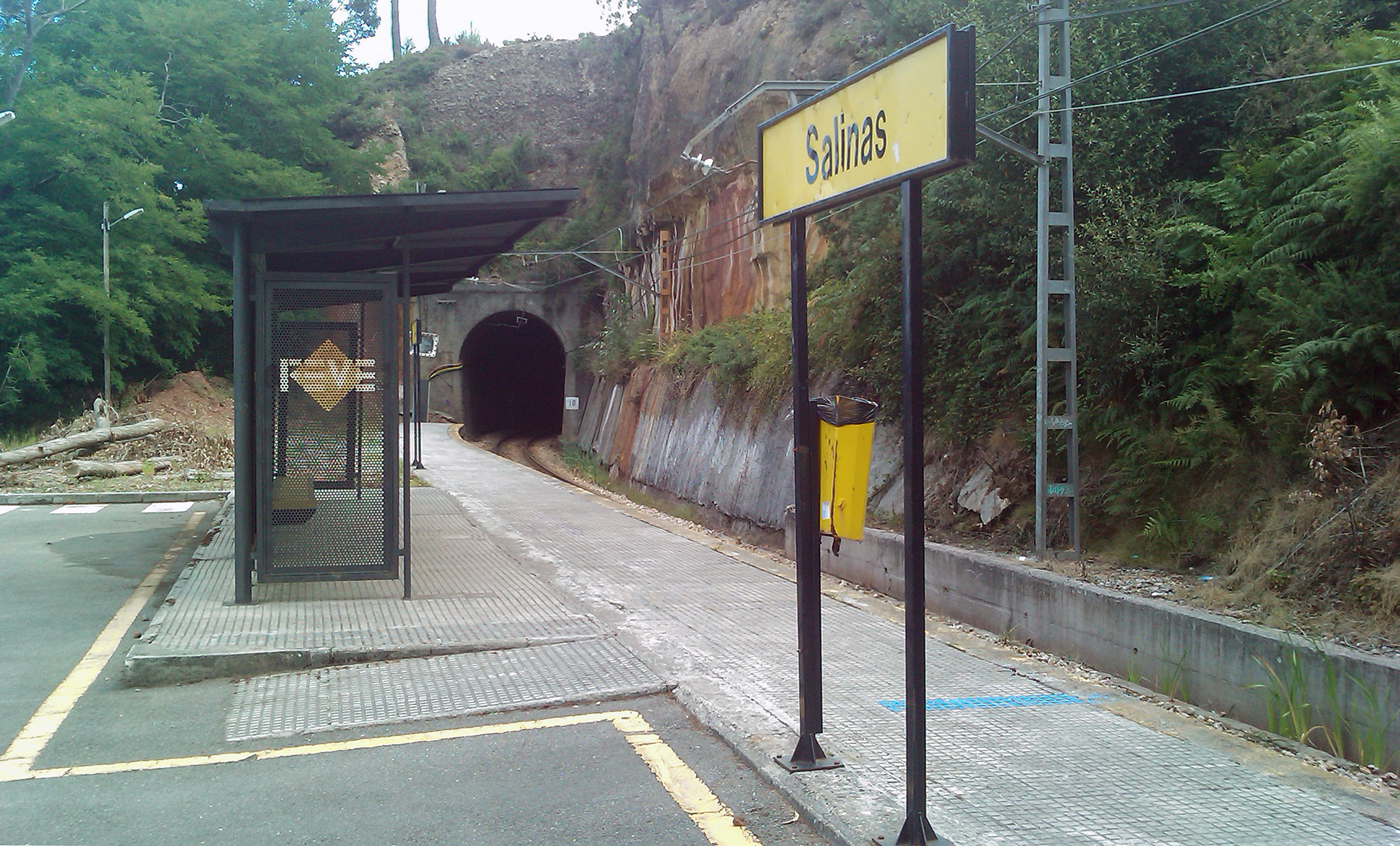 Train station in Salinas, Castrillón, Asturias, Spain